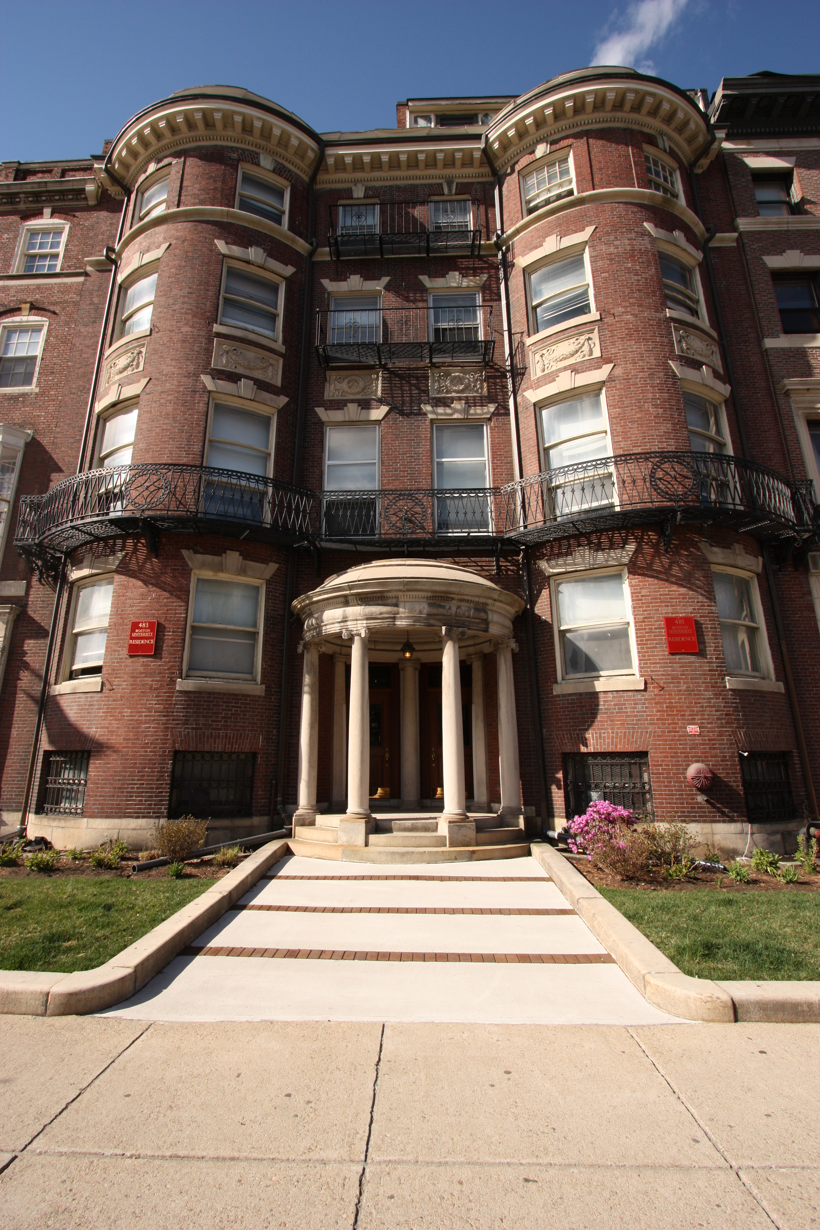 A residence building used by Boston University. Part of the Wikipedia Takes Boston scavenger hunt.